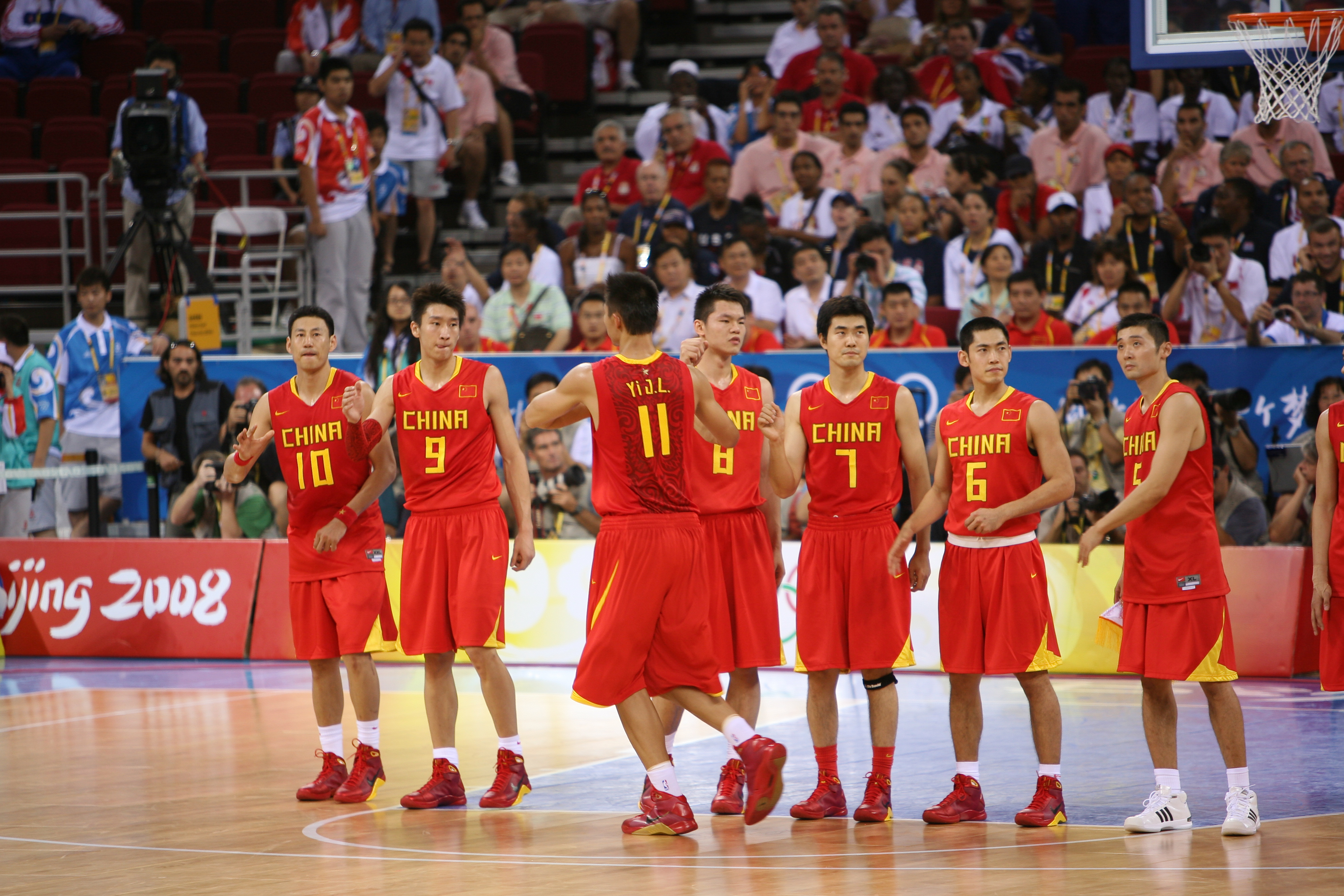 Team China - Men's Basketball - Beijing 2008 Olympics